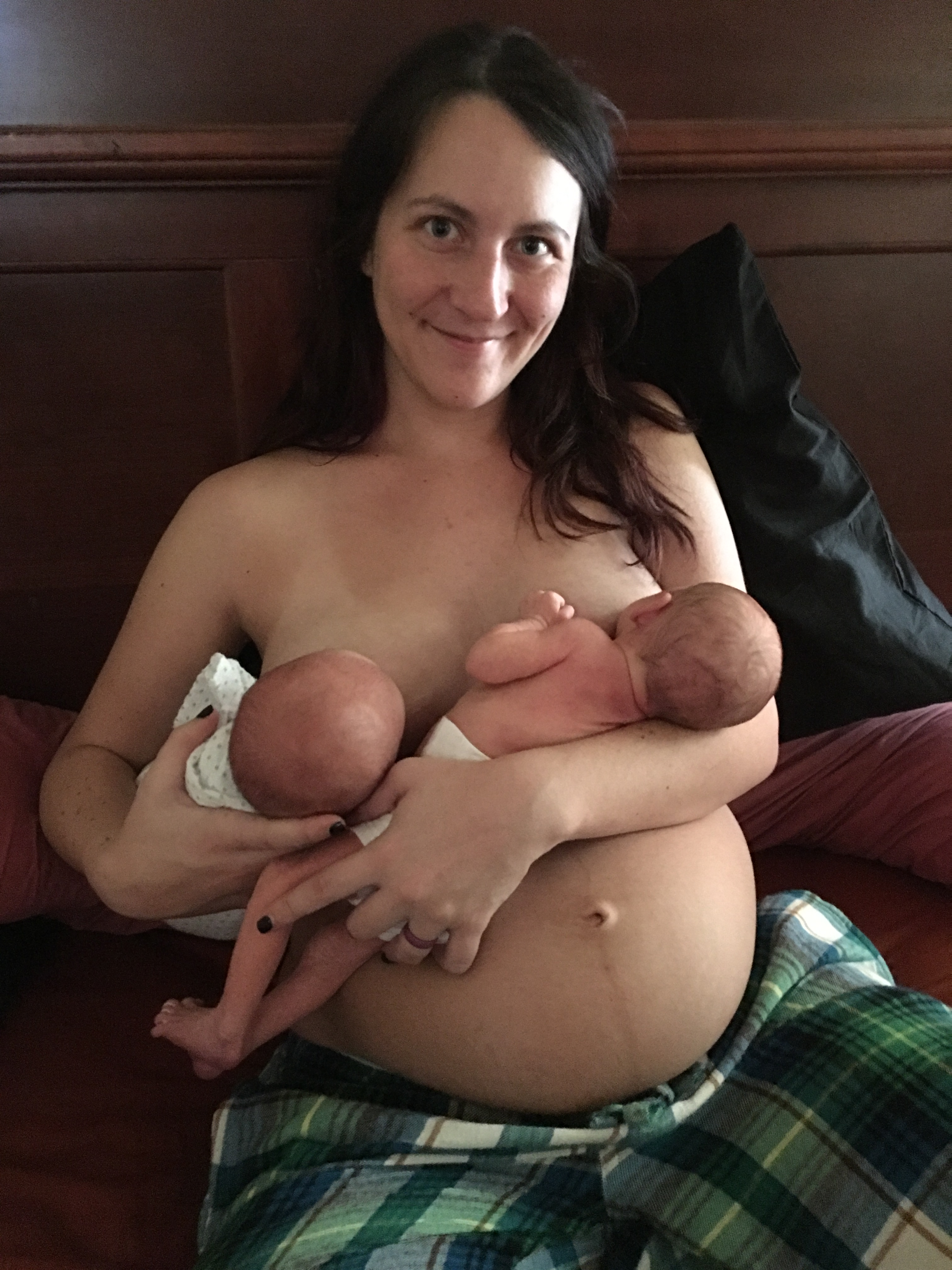 Tandem breastfeeding twins 6 days postpartum.